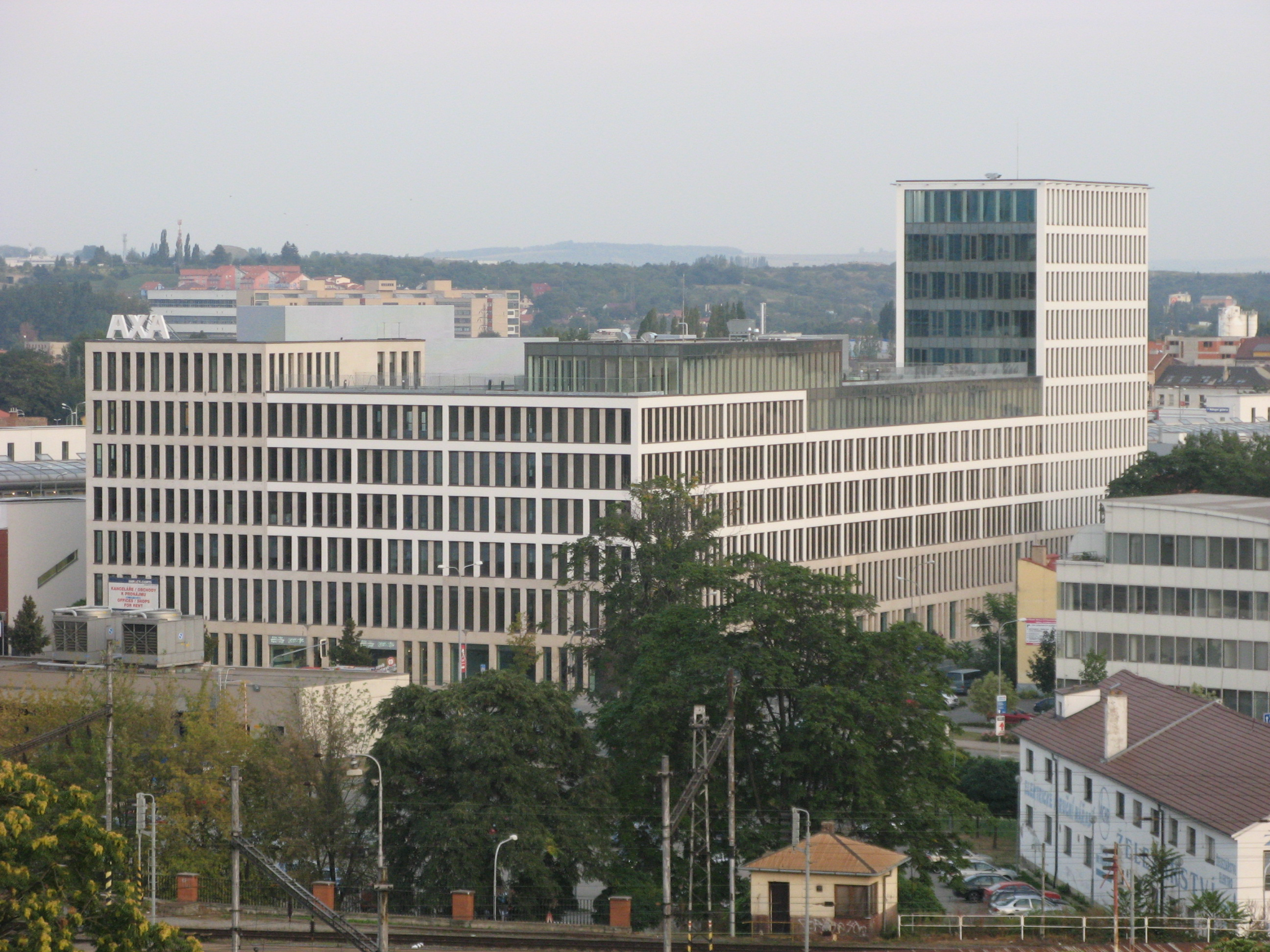 Triniti office center, Brno - Czech republik